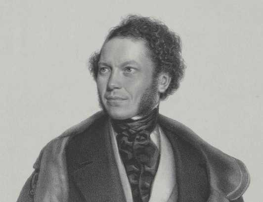 Gottfried von Preyer (1807-1901), Austrian composer